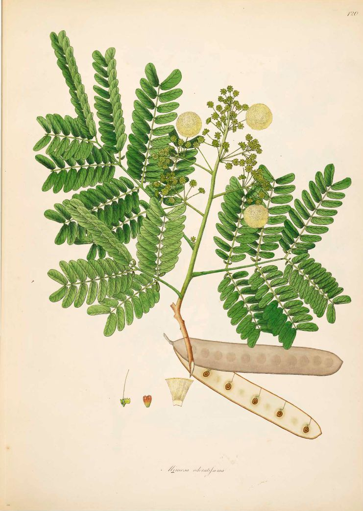 "Plants of the coast of Coromandel :selected from drawings and descriptions presented to the hon. court of directors of the East India Company" /Publication info:London :Printed by W. Bulmer and Co. for G. Nicol, Bookseller,1795-1819.